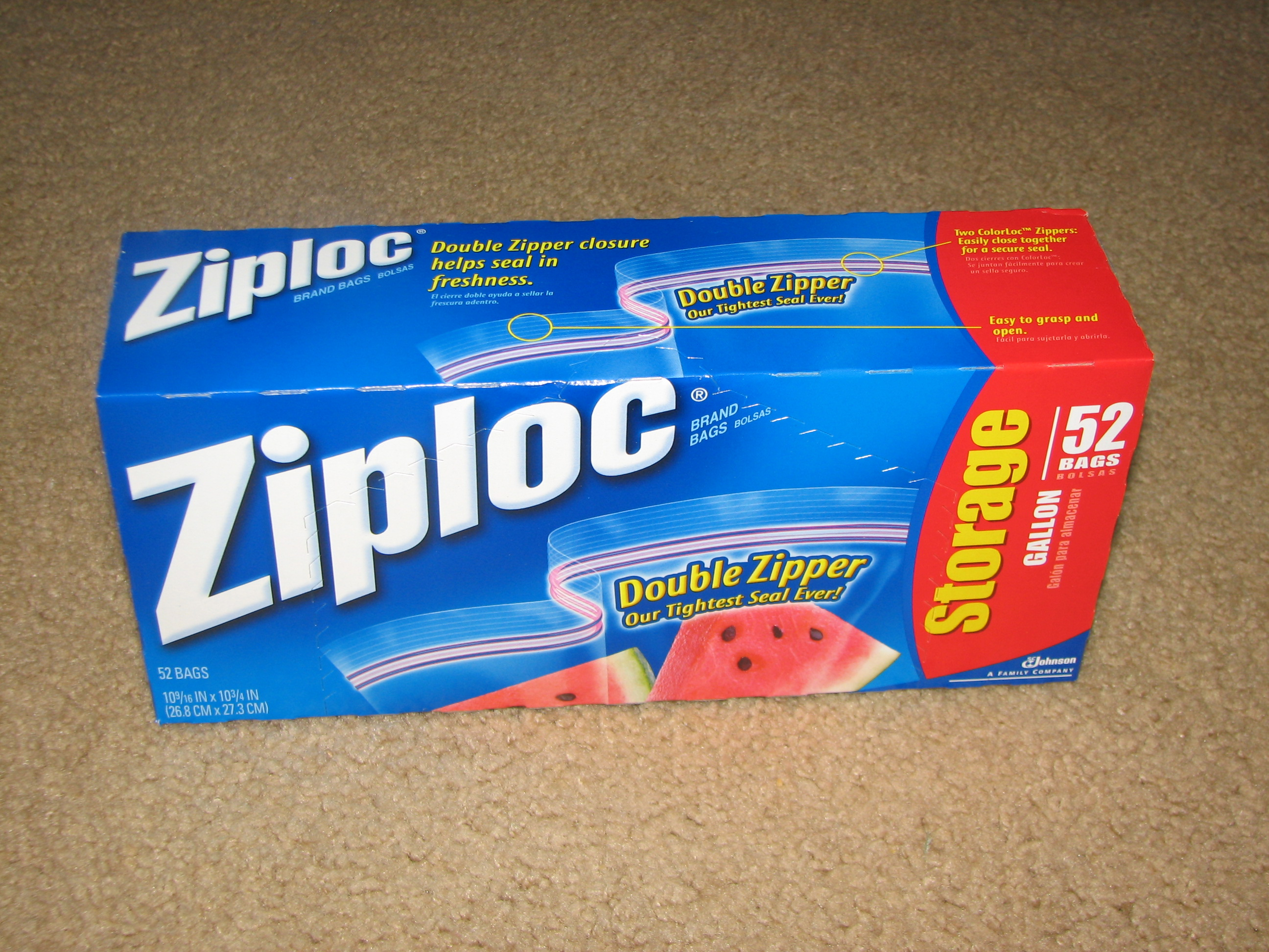 A box of 52 gallon Ziploc bags.